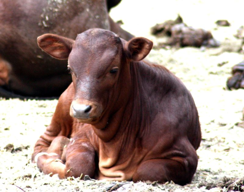 Lying down watusi calf